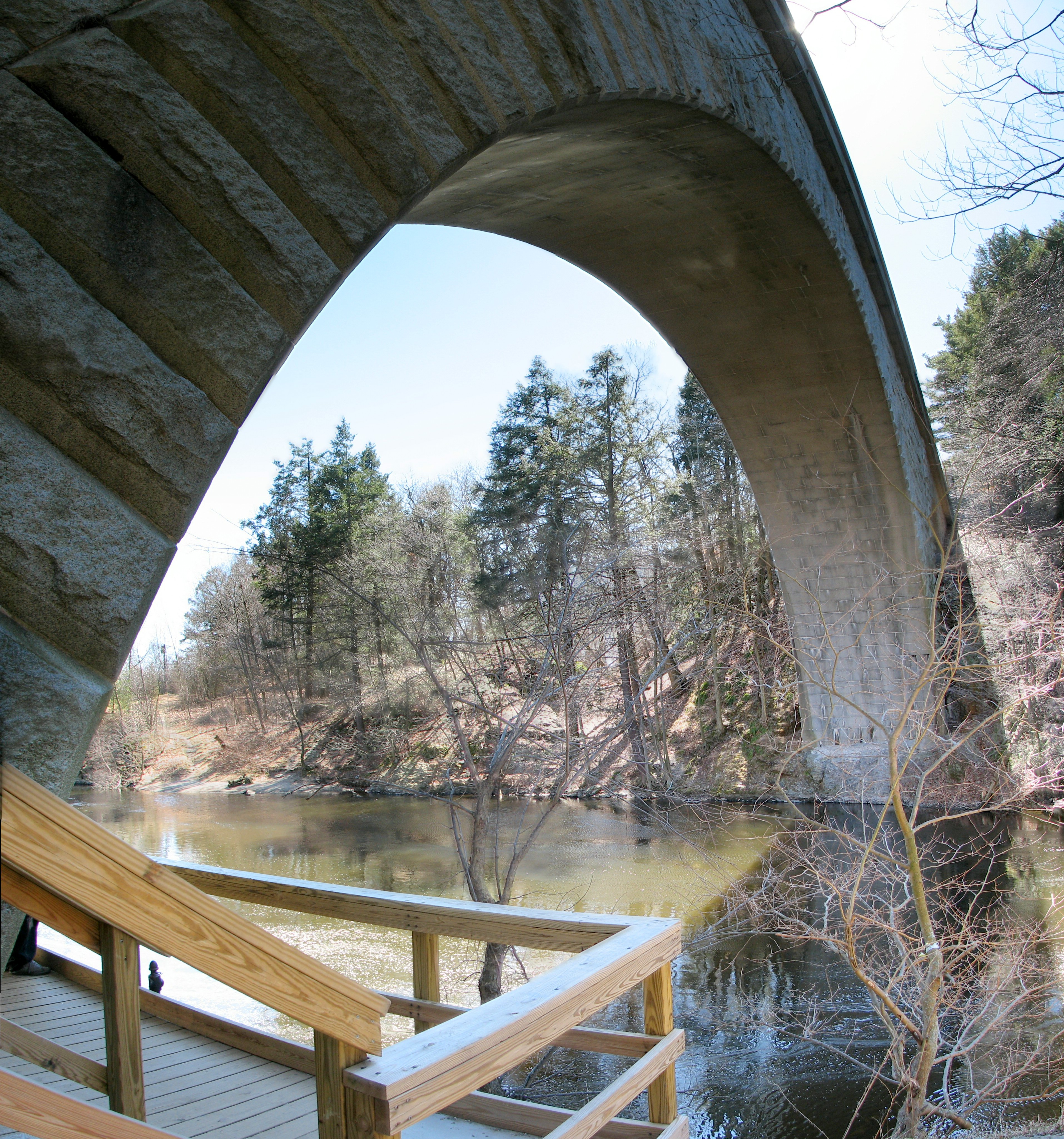 Echo Bridge, Newton, Massachusetts 2D Panoramic Photo